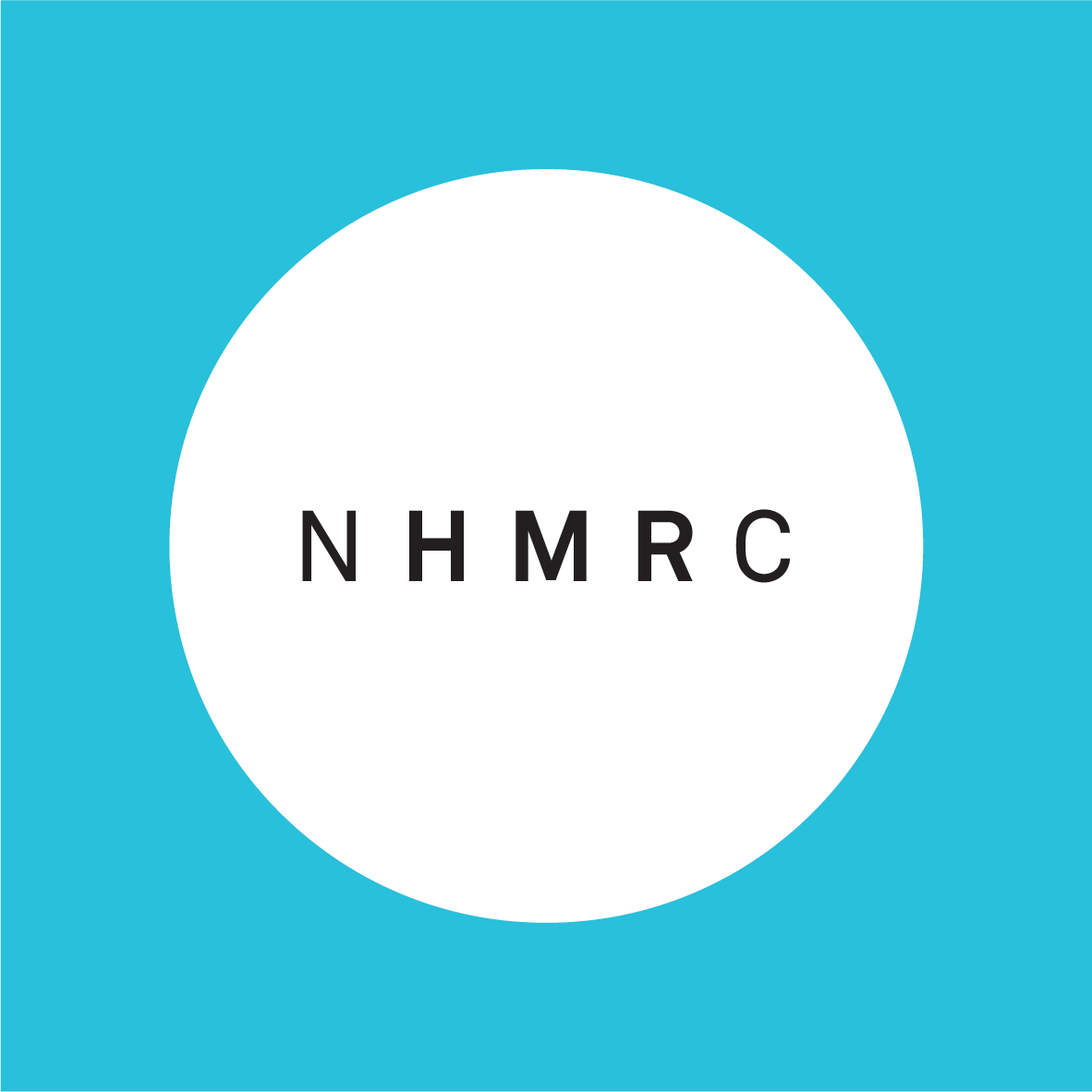 NHMRC logo.png